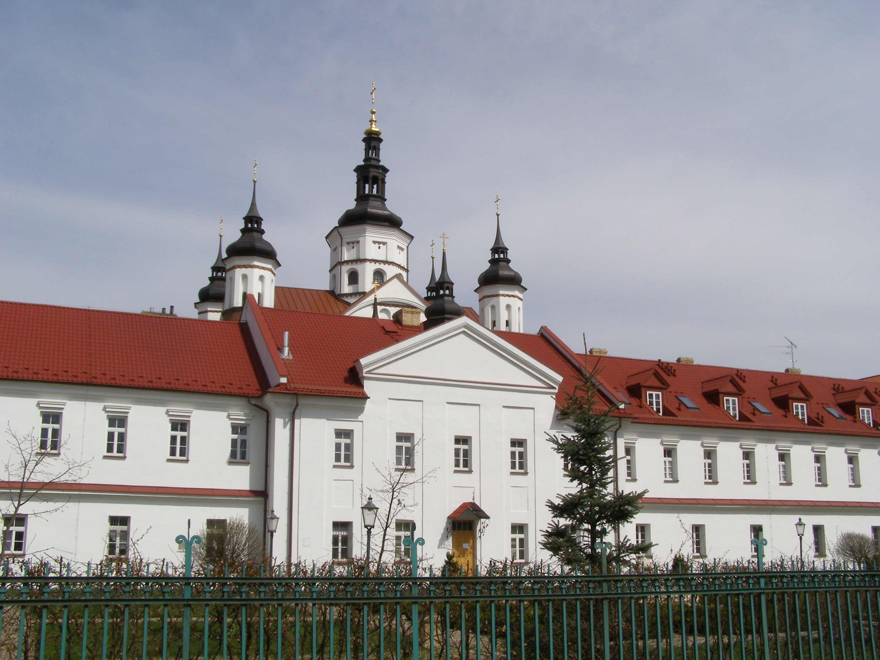 Supraśl - Orthodox monastery